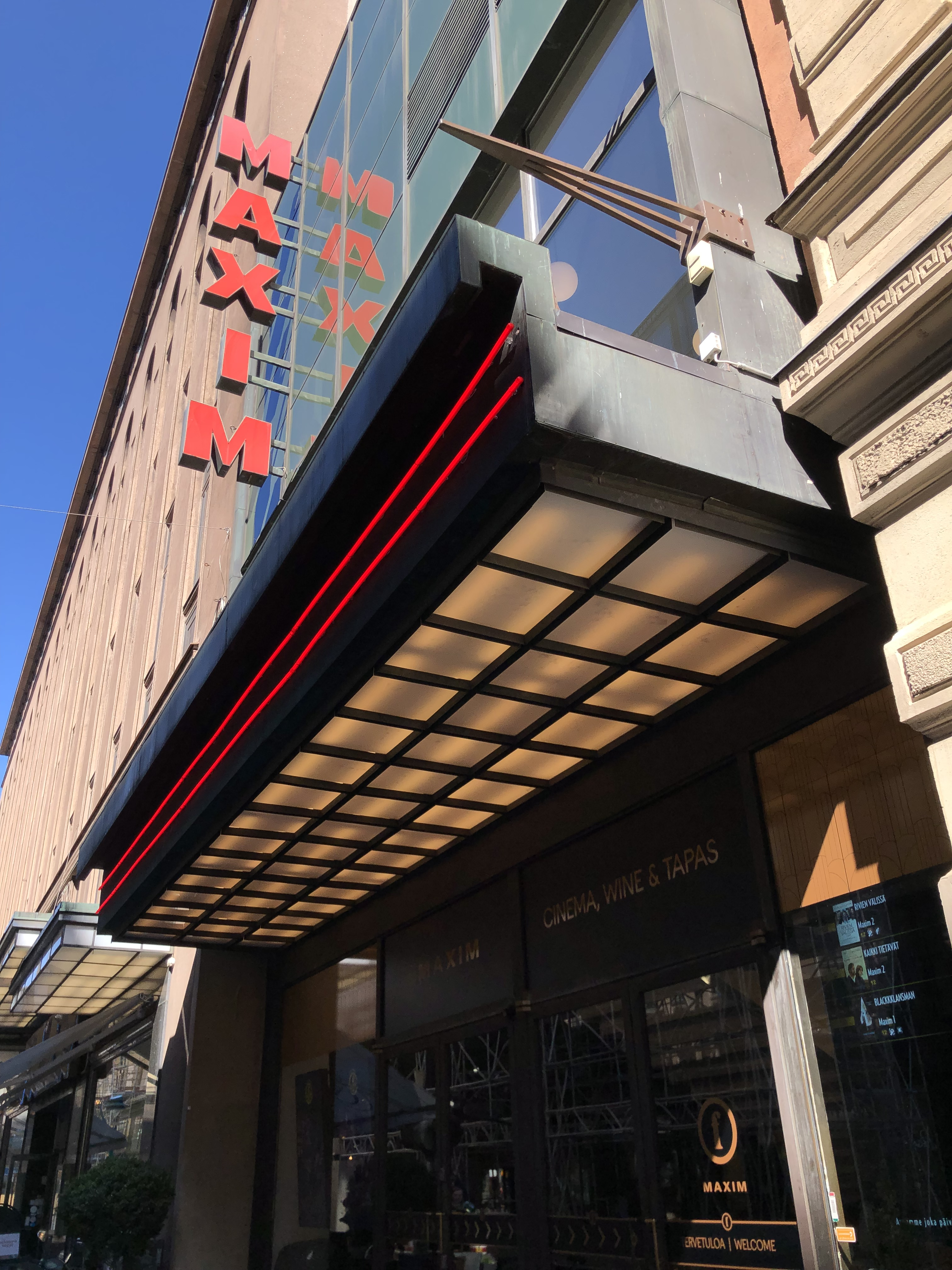 Maxim film theater in Kluuvikatu Helsinki